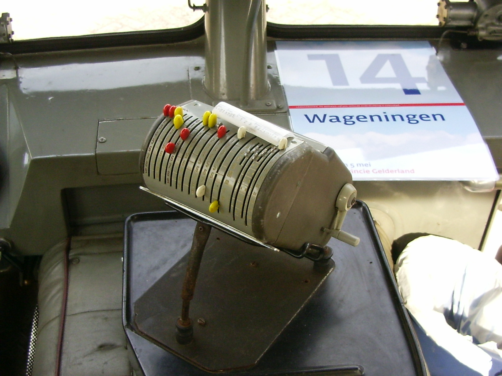 Beckson ticket machine in Zuid-Ooster museumbus 6778